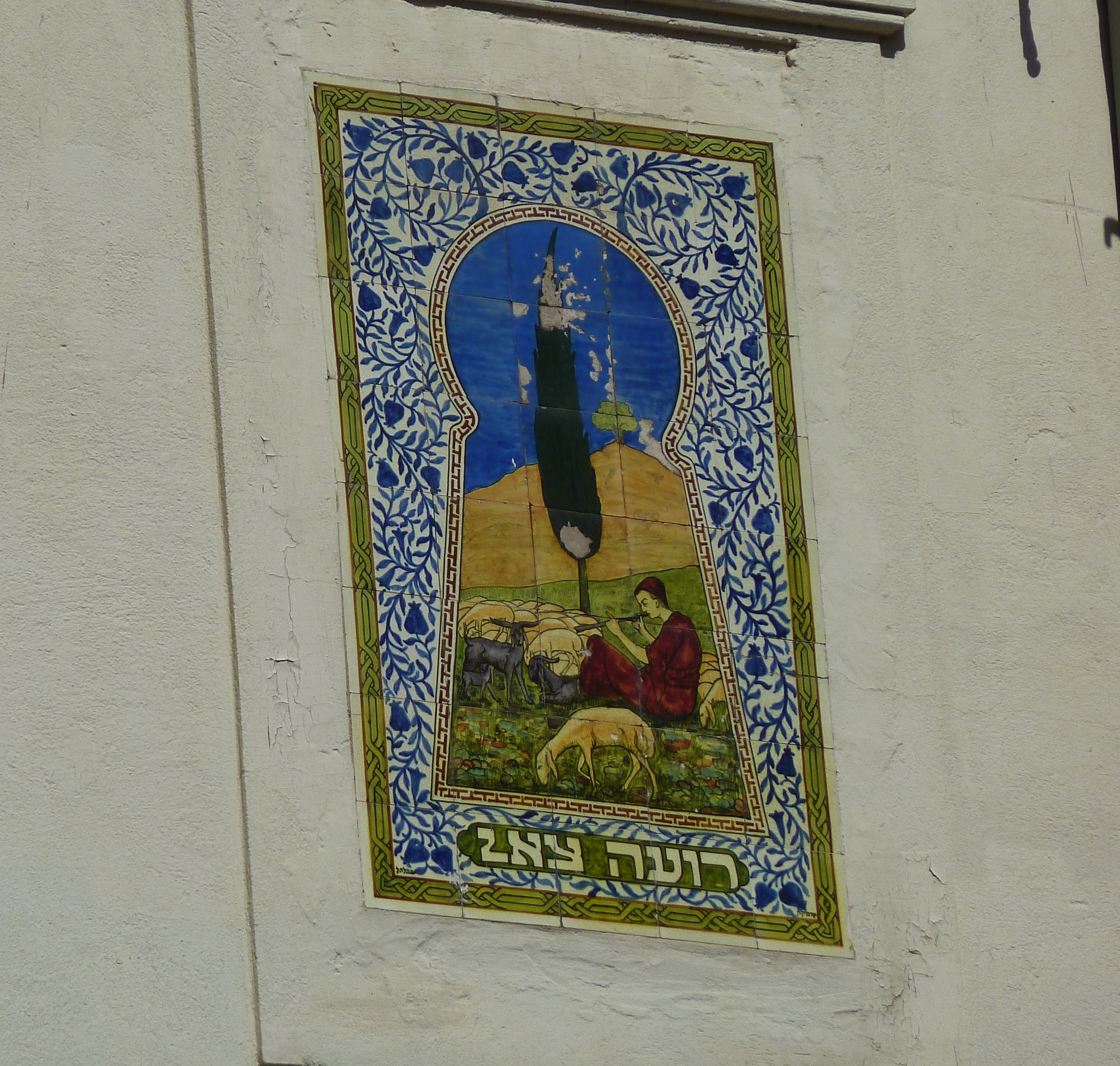 IPurim Morning, Rothschild Boulevard, Tel Aviv